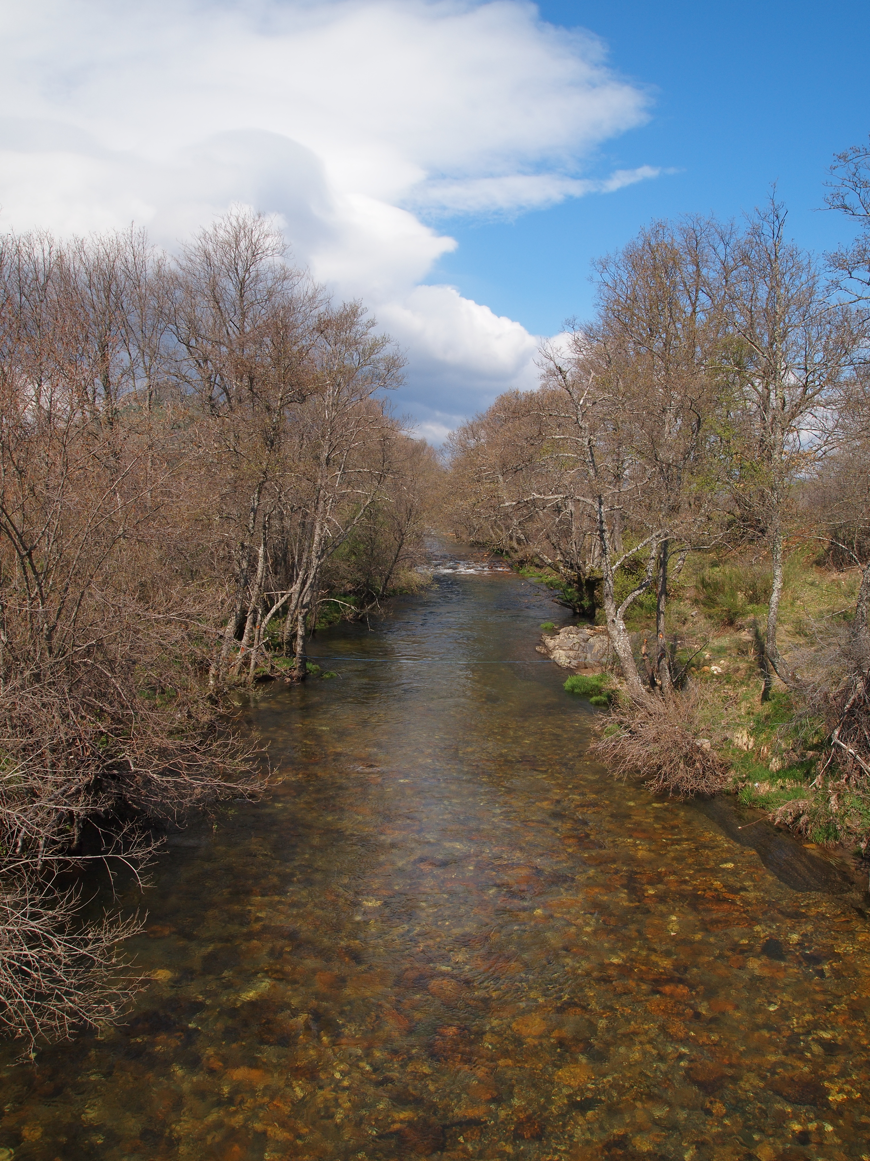 The river Eria, through Truchas (province of León, Spain), between Cunas and Quintanilla de Yuso